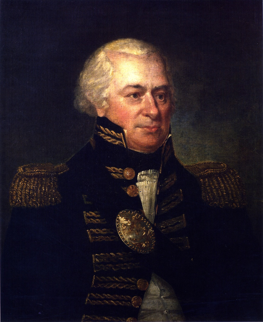 General James Wilkinson, painted by John Wesley Jarvis (1780-1840) circa 1820-1825